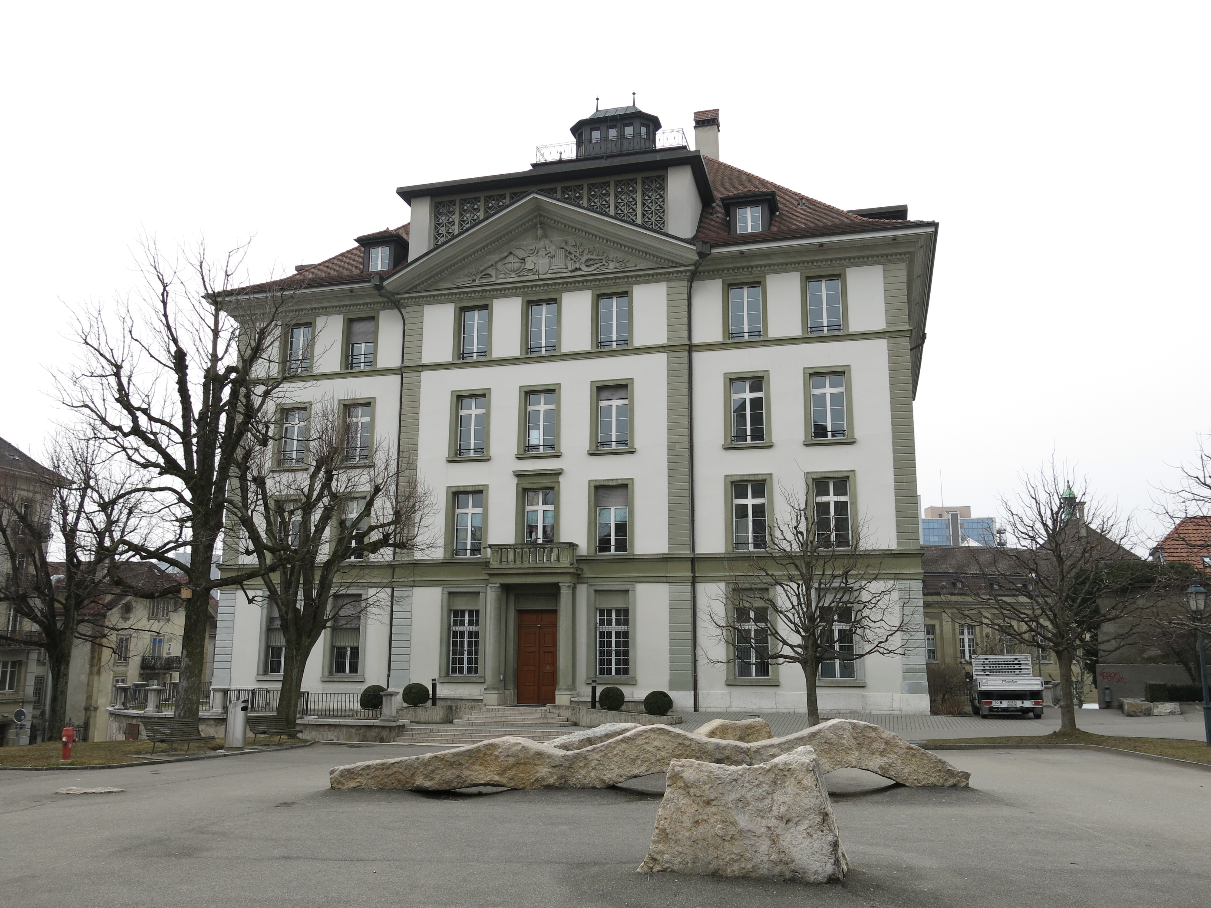 Fribourg, Switzerland